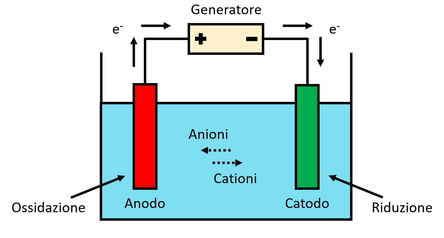 Schematics of the apparatus for electro-oxidation process